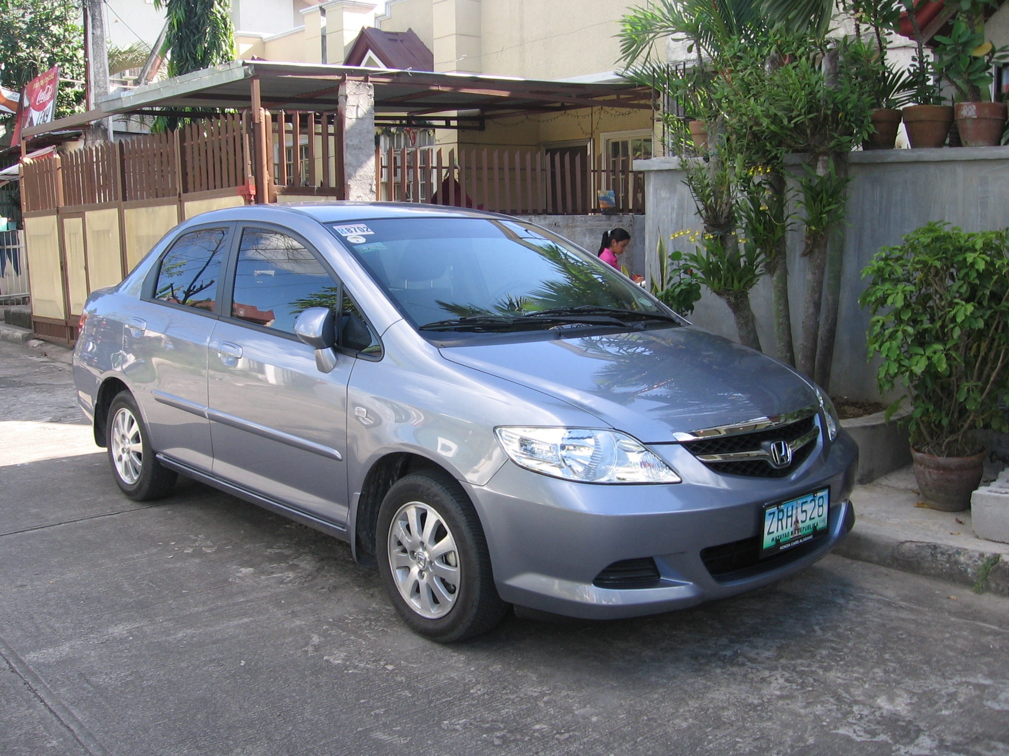 2008 Honda City taken at Cainta Rizal